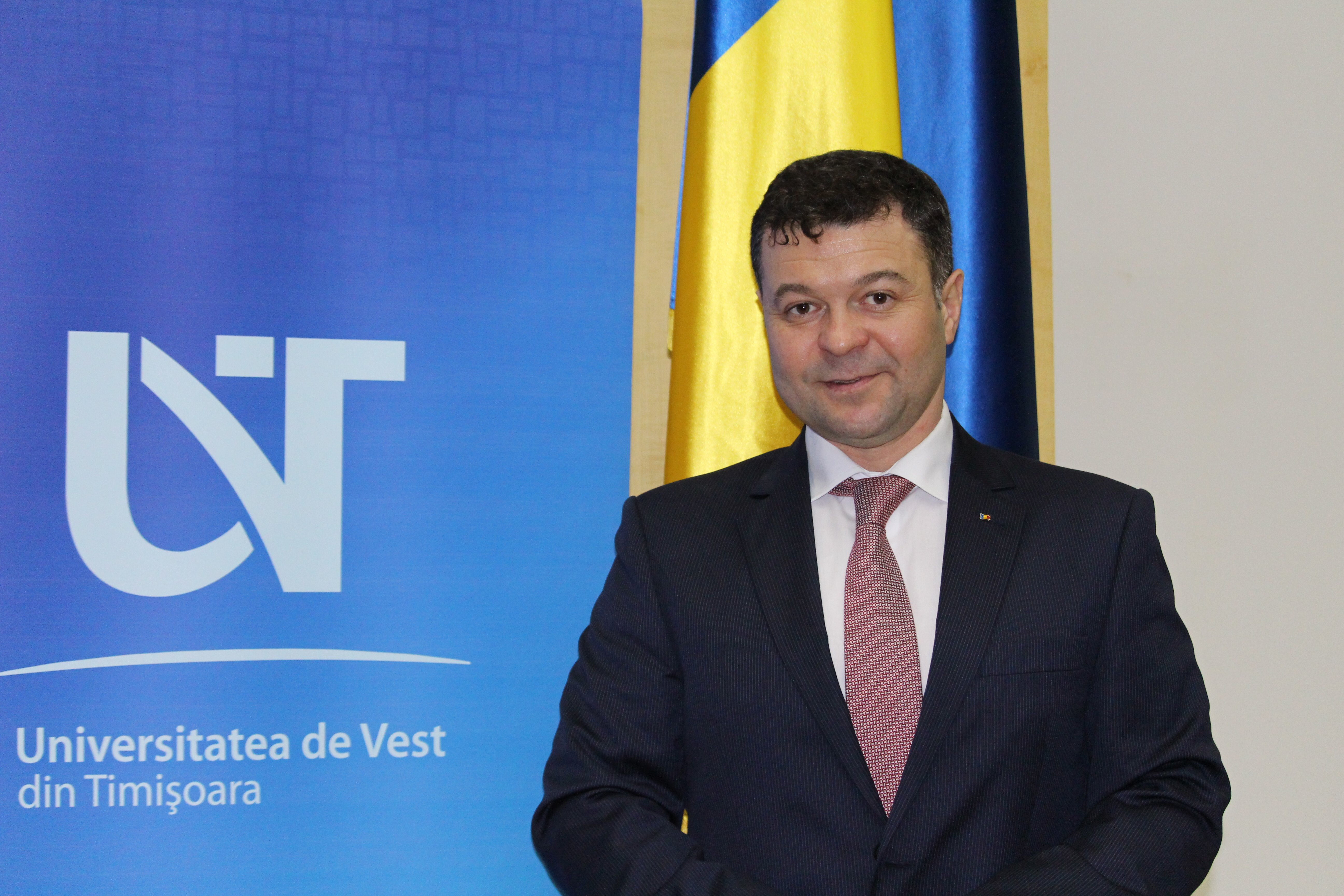 Marilen Pirtea, Rector (2016-2020) of the West Universityof Timisoara, Romania, at a scientific event.